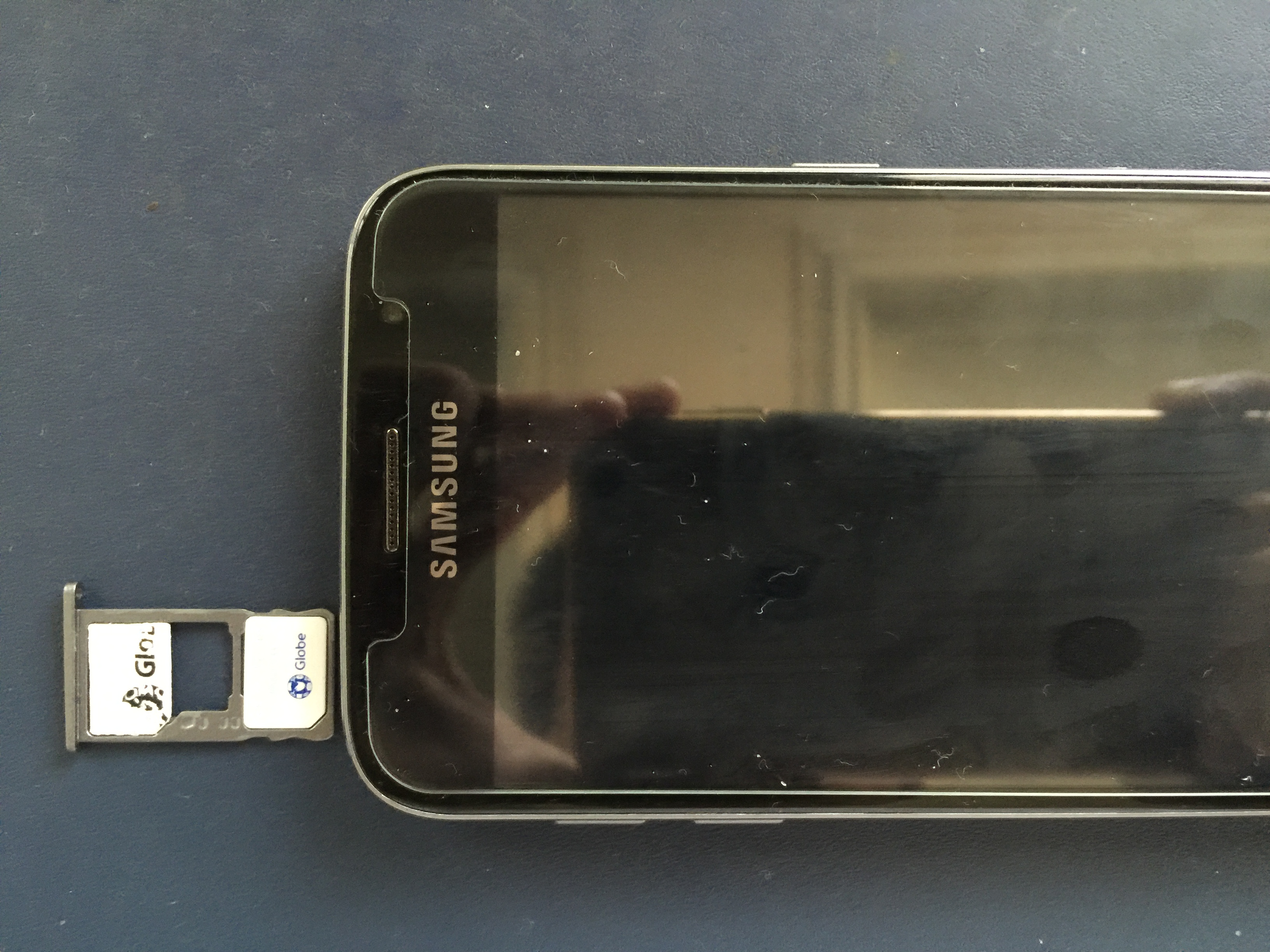 Dual-SIM tray slot on a counterfeit clone of the Samsung Galaxy S7, sold as a "G930FD". The phone runs on a MediaTek MT6580 system-on-chip, has 512MB of RAM and 8GB of onboard storage. These devices come with firmware made to resemble the real UI they imitate, often with specifications (half-heartedly) hacked to report as being better than it actually is; there does exist a secret menu for those to be changed to their real values though.